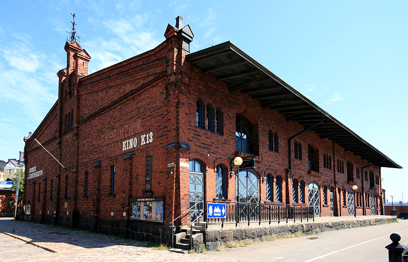 Buiding of the Finnish Film Foundation in Katajanokka, Helsinki, Finland.